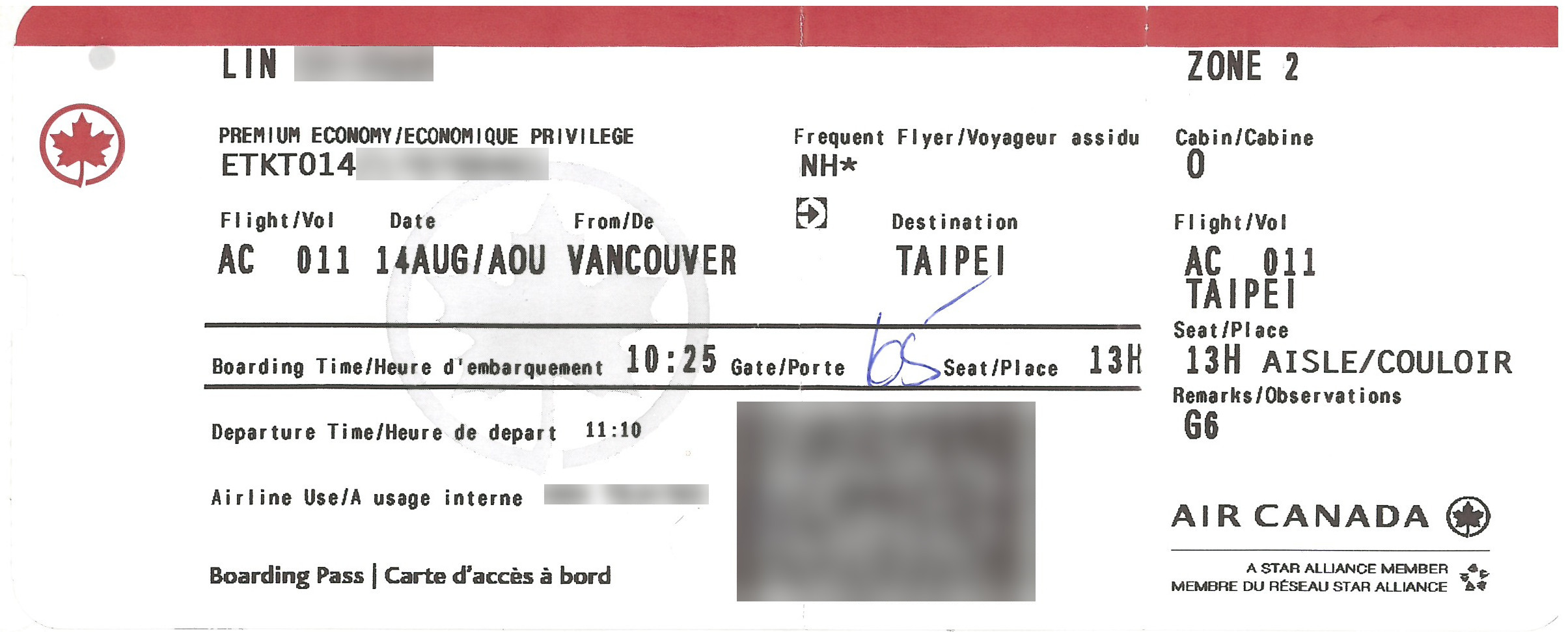 Scan copy of boarding pass for Air Canada AC11 Vancouver to Taipei